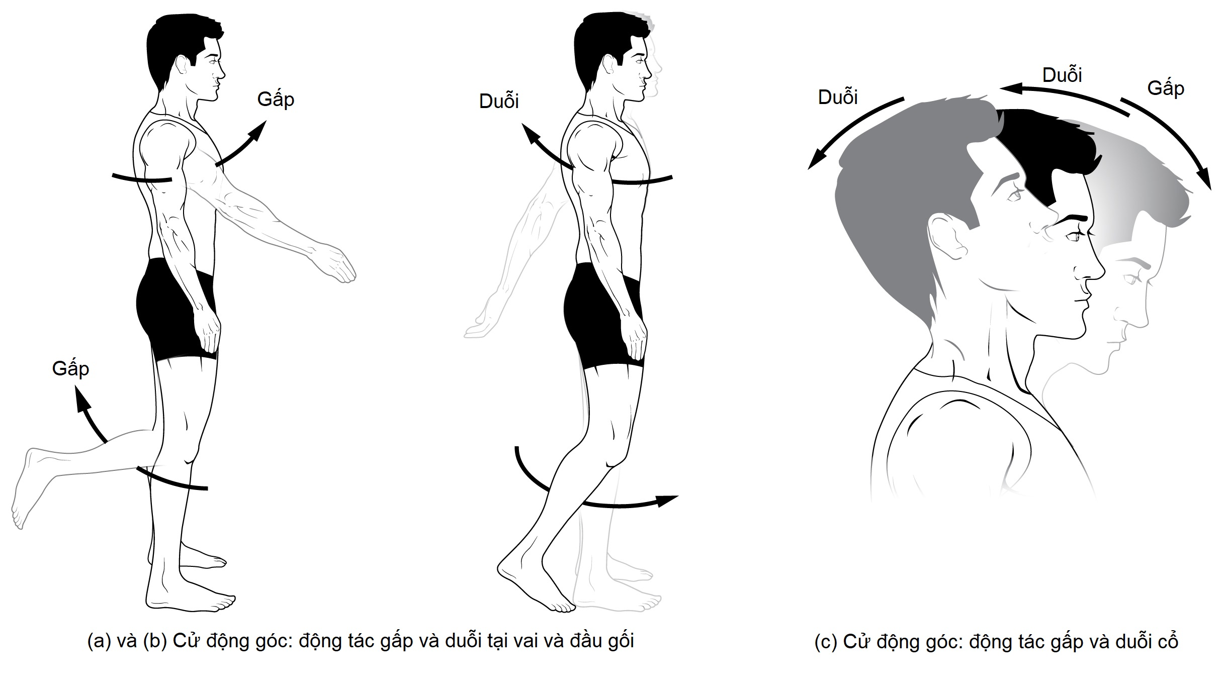 Translate "File:FlexsionExtension2017.jpeg" into Vietnamese